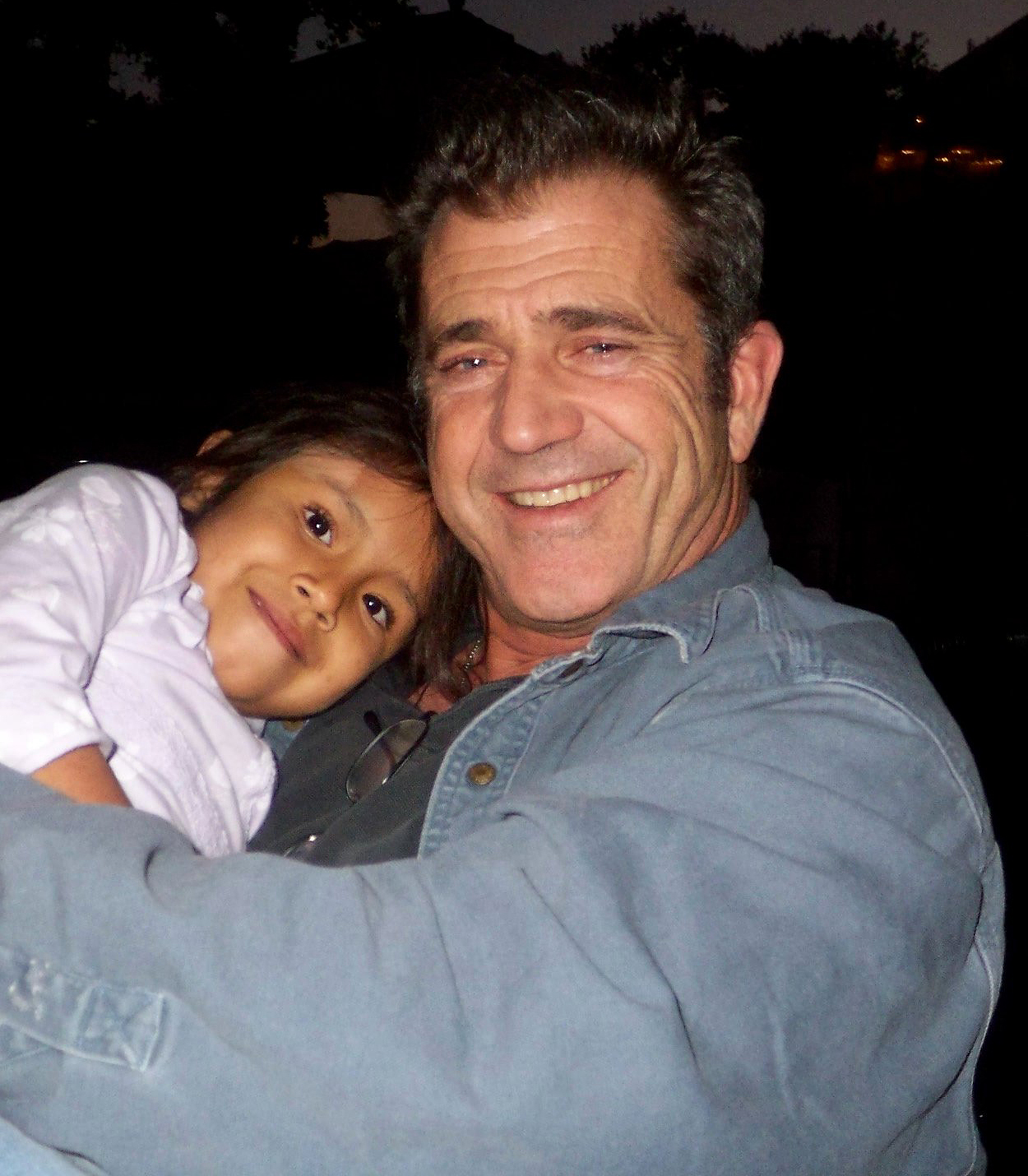 Mel Gibson holds Domenica, our foster child from Ecuador, at the Mending Kids Christmas party. Robin Gibson is the Chairman of Mending Kids.